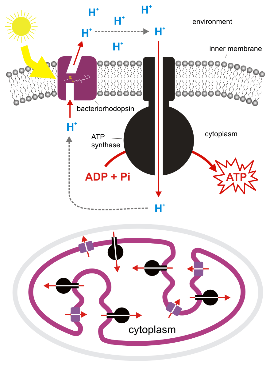 Chemiosmotic coupling between sun energy, bacteriorhodopsin and phosphorylation by ATP synthase (chemical energy) during photosynthesis in Halobacterium salinarum (syn. H. halobium).